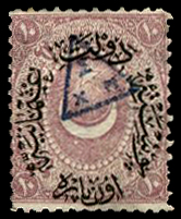 Local postage stamp for Mount Athos, Ottoman empire, 1880.